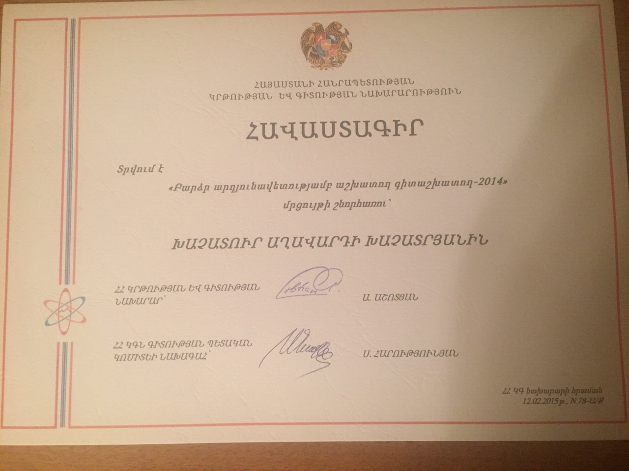 Havastagir Khachatryan